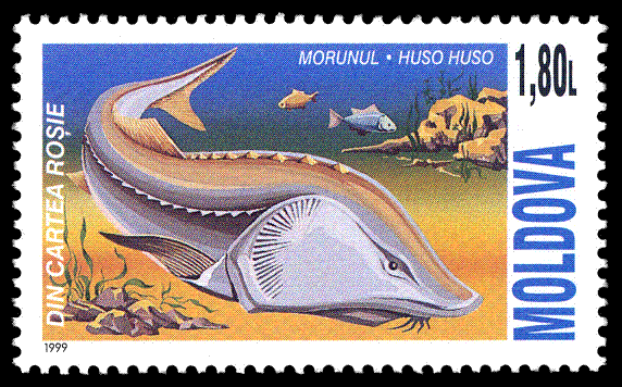 Stamp of Moldova